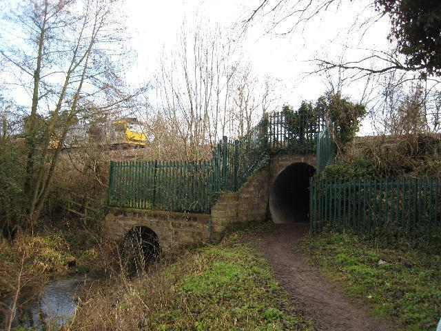 Stroudwater Canal culvert under Bristol & Gloucester Line The original railway bridge over the canal was, if my memory serves me correctly, replaced by this culvert in the 1960s. It probably constitutes one of the most complicated, but by no means insurmountable, challenges to the complete restoration of the canal.